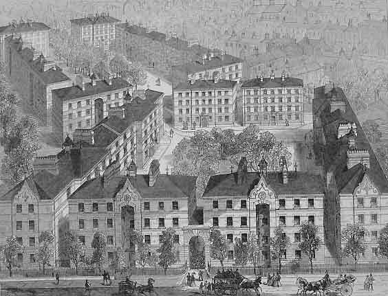 Peabody Square Model Dwellings in Blackfriars Road, in Southwark, London. These buildings, which still exist, are typical of early Peabody Trust developments, and of pre-World War I social housing in London in general.